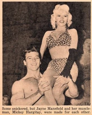 Jayne Mansfield with her muscleman Mickey Hargitay 1955